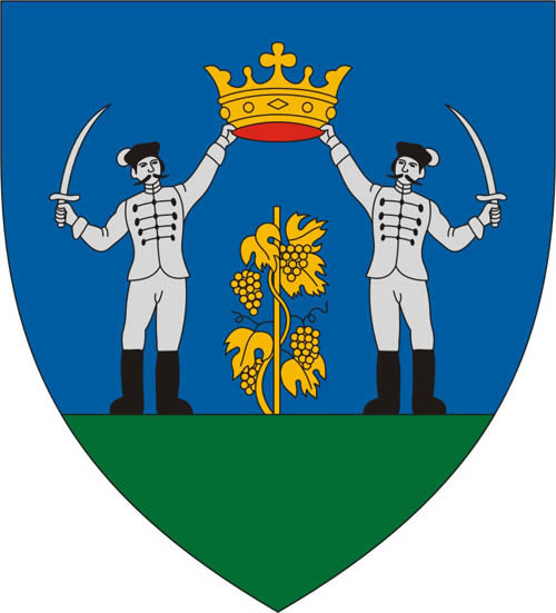 Coat of arms of Zebegény, Hungary